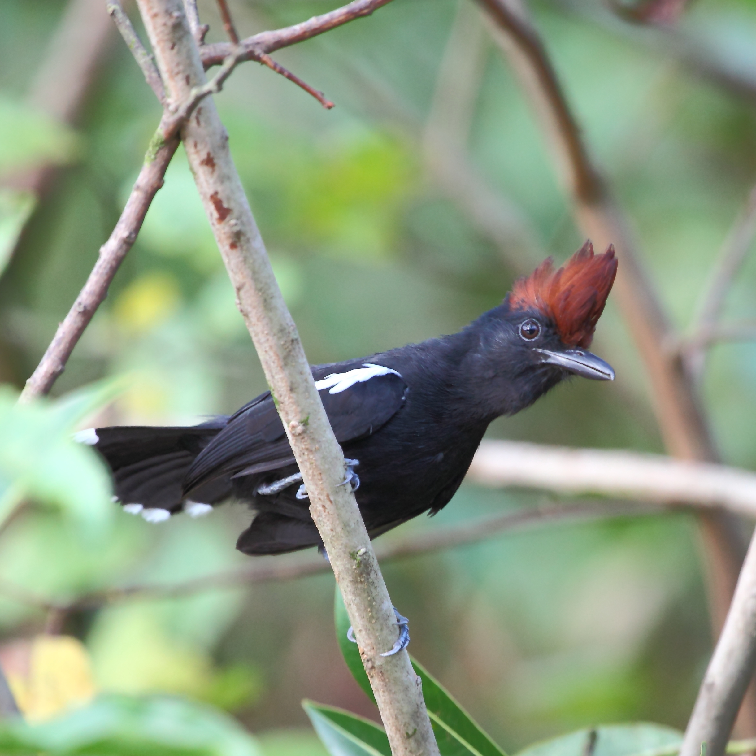 Glossy Antshrike at Apiacás river - Mato Grosso - Brazil